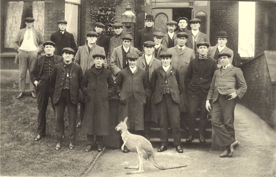 Australian Rugby League team on tour 1908 Front eight L to R:Jim Abercrombie; Dinny Lutge; Arthur Halloway; x; Sid Deane; Dally Messenger; Sandy Pearce (striped collar); Robert Graves (far right). Middle five L to R: x; Albert Rosenfeld (directly under lamp); Frank Cheadle; Bill Hardcastle (blurred, long coat); Arthur Anlezark (bowler hat). Back eight L to R: x;x; Jim Devereux; Lou Jones; John Fihelly (bowler hat); J J Giltinan (blurred, moustached); x; Bill Heidke.